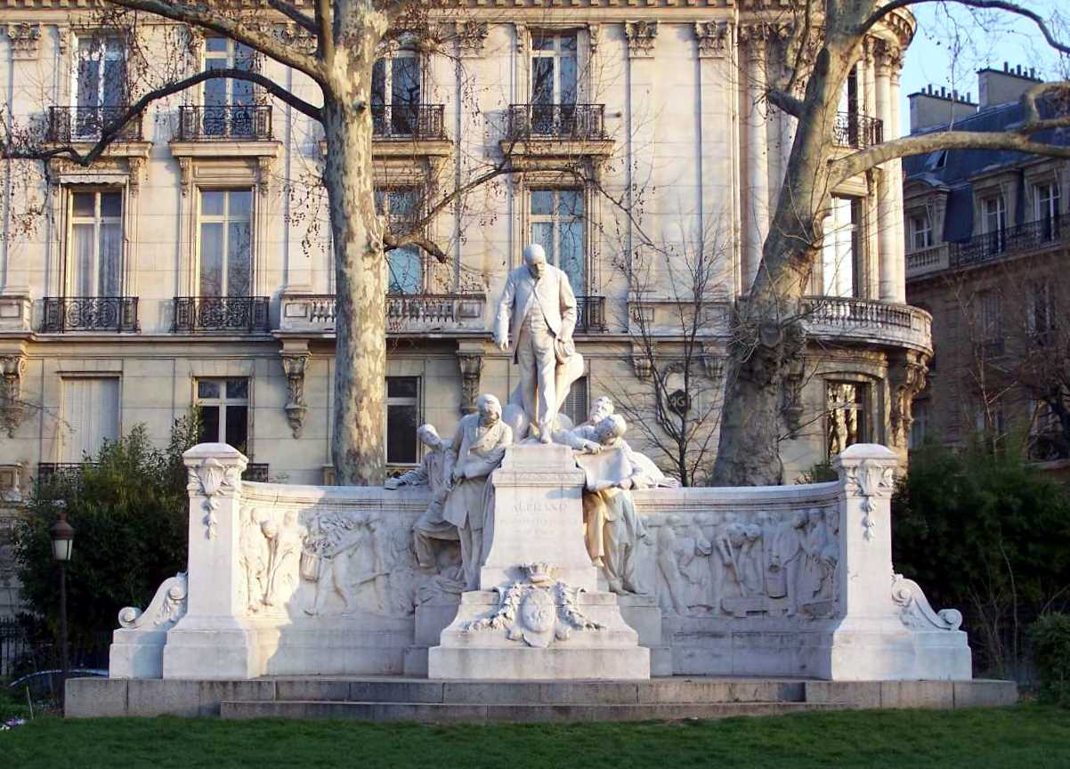 Memorial to Jean-Charles Alphand by Jules Dalou in Paris 16th arrondissement.